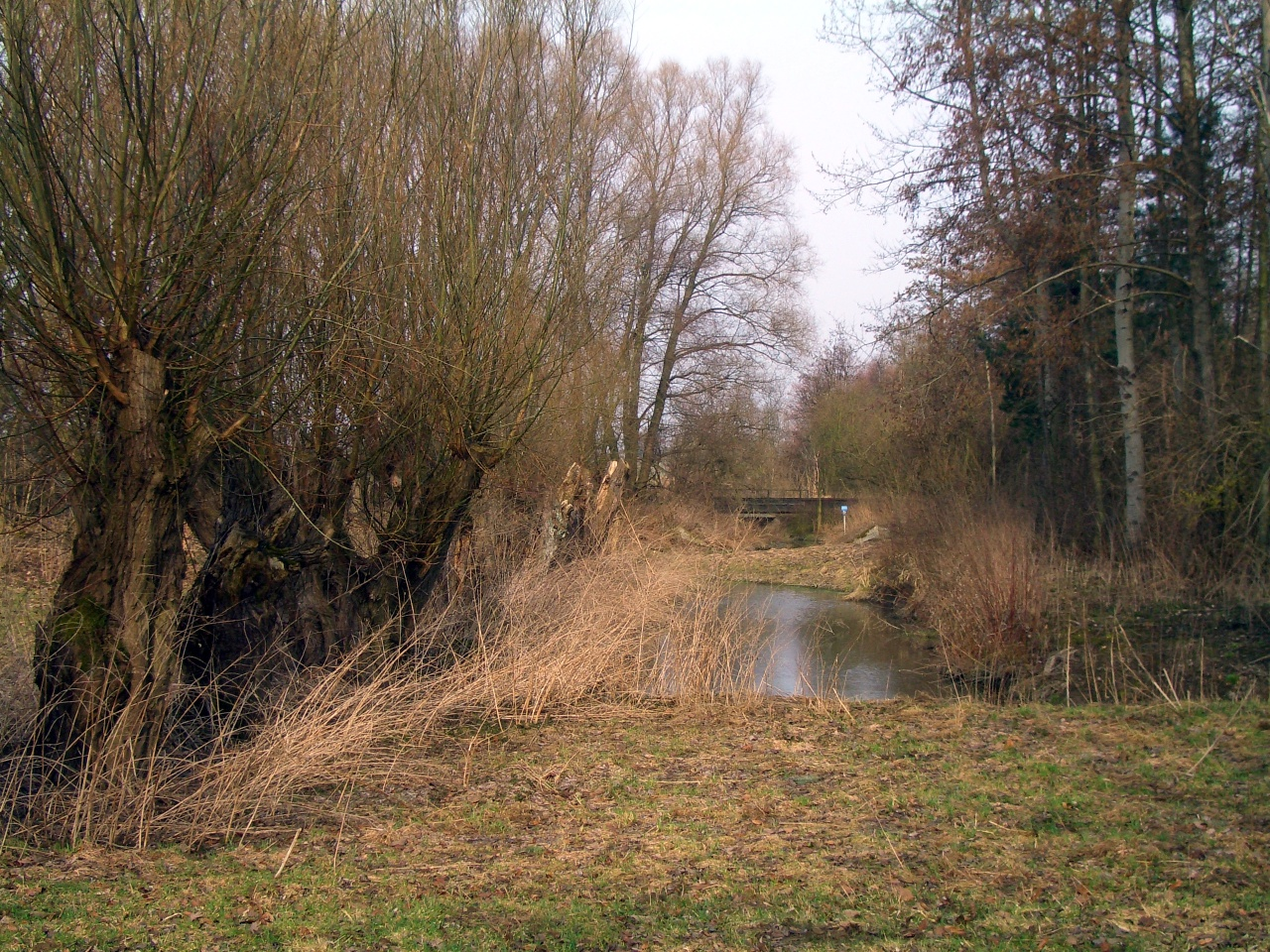 Fuhsekanal near Suedsee.